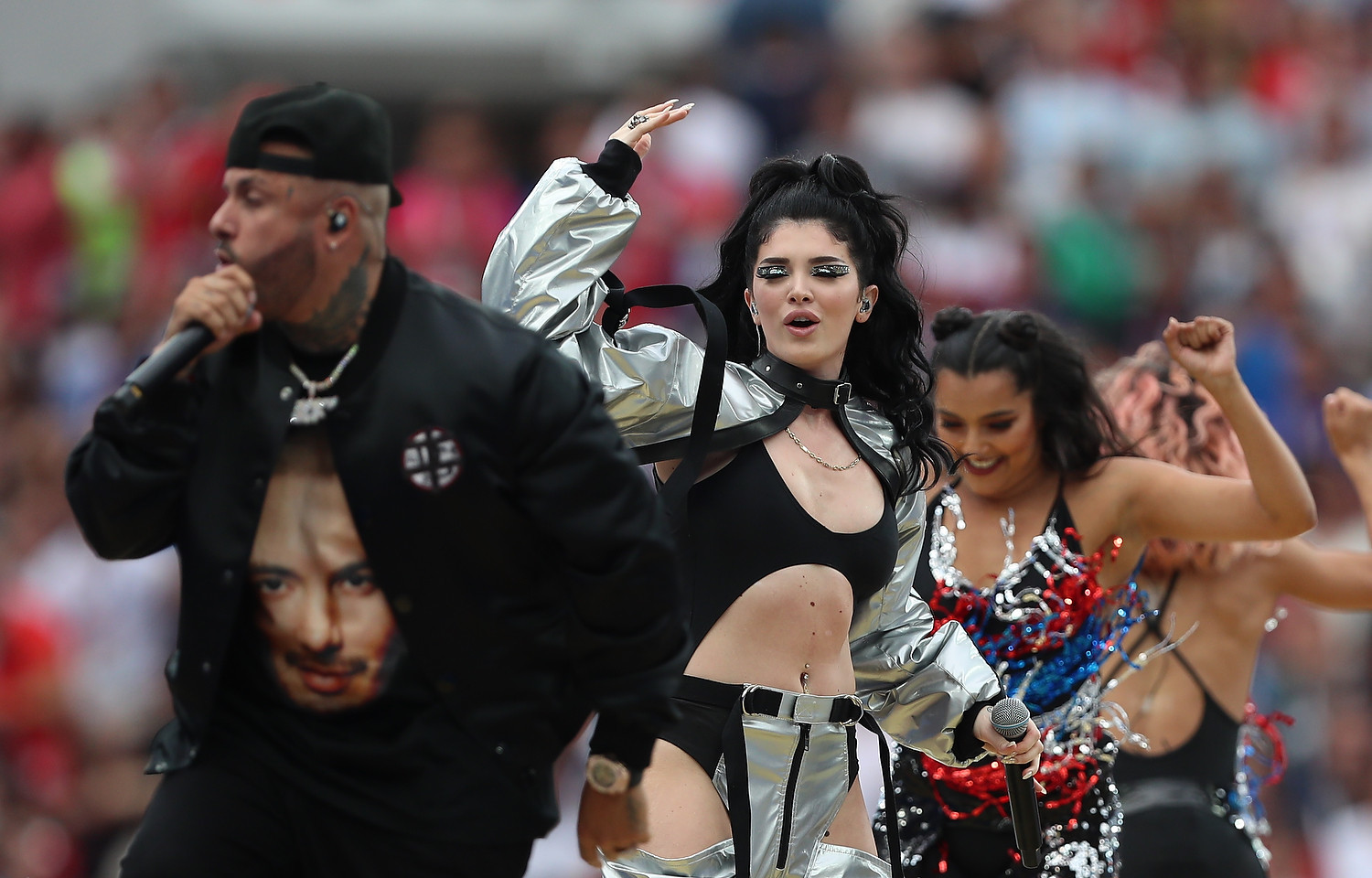 Live It Up at the close of the 2018 World Cup Russia